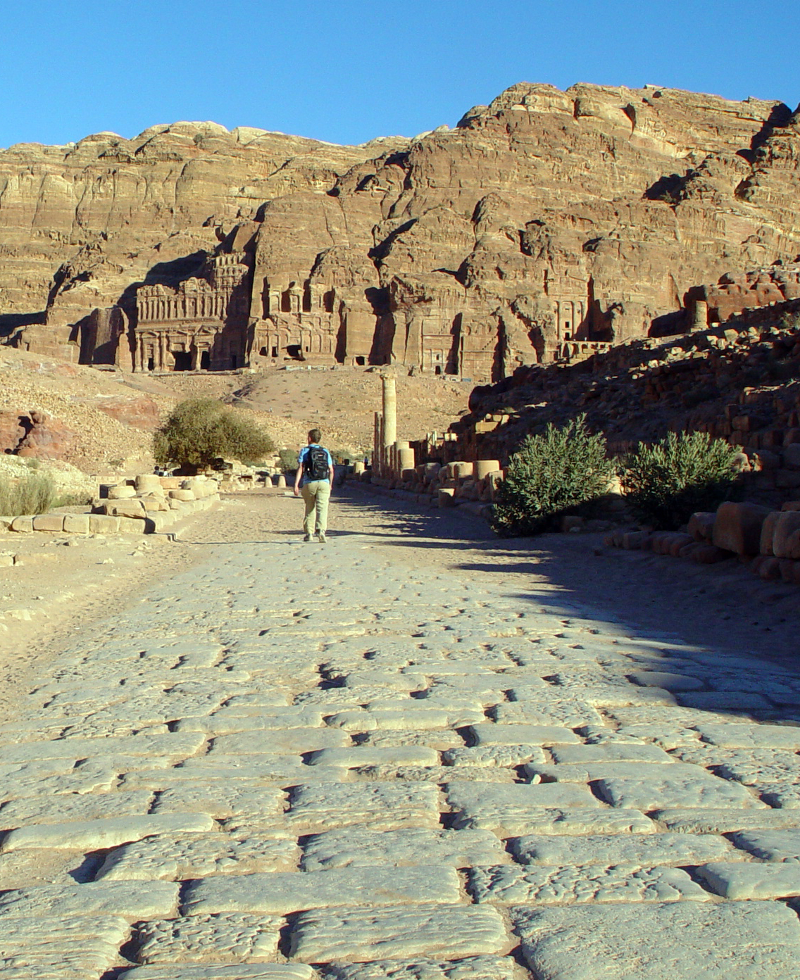 The cardo in Petra(Jordan)